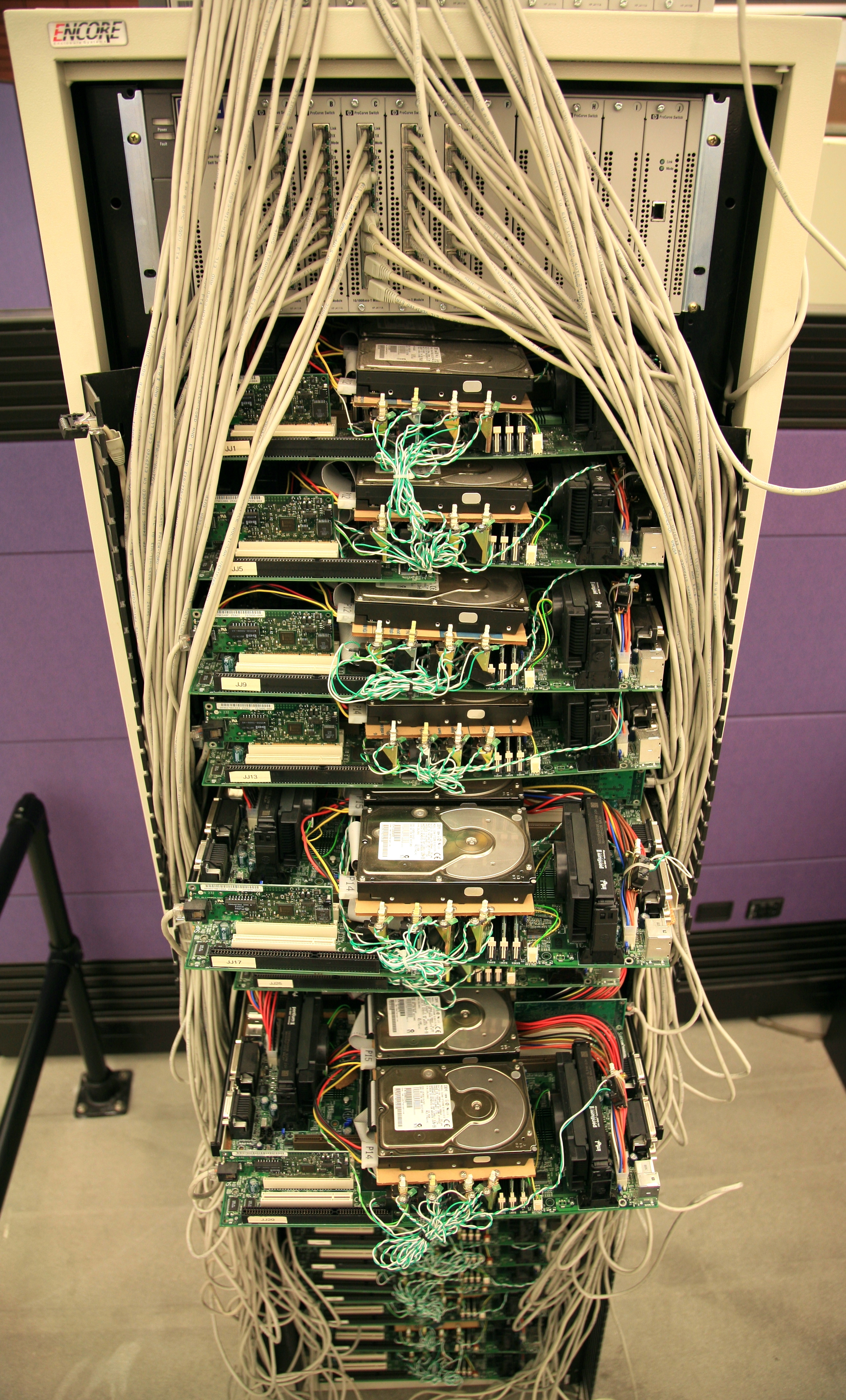 Google’s First Production Server ...with the hair pulled back, revealing a rack of cheap networked PCs, circa 1999. Each level has a couple of PC boards slammed in there, partially overlapping. This approach reflects a presumption of rapid obsolescence of cheap hardware, which would not need to be repaired. Several of the PCs never worked, and the system design optimized around multiple computer failures. According to Larry and Sergey, the beta system used Duplo blocks for the chassis because generic brand plastic blocks were not rigid enough. We held an event at the Computer History Museum yesterday, and I noticed this new item in the collection. It pre-dates the Google Master Plan.